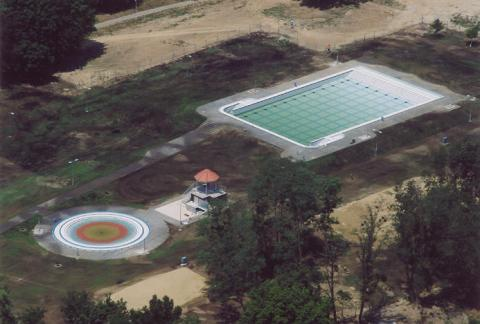 Letenye, Hungary, aerialphotography